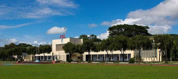 academic block